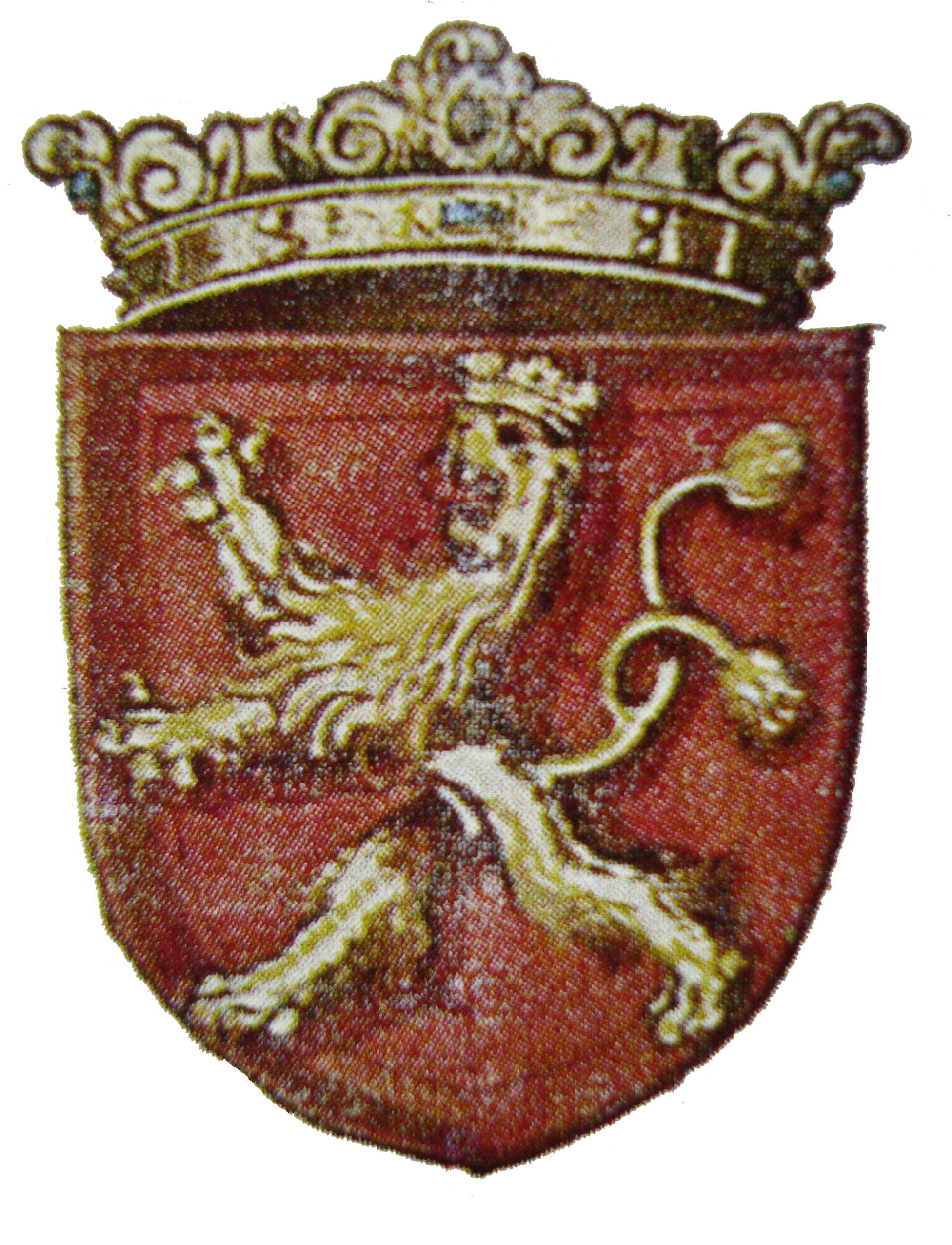 The coat of arms of Macedonia from 1614 found in Altan's rolls of arms